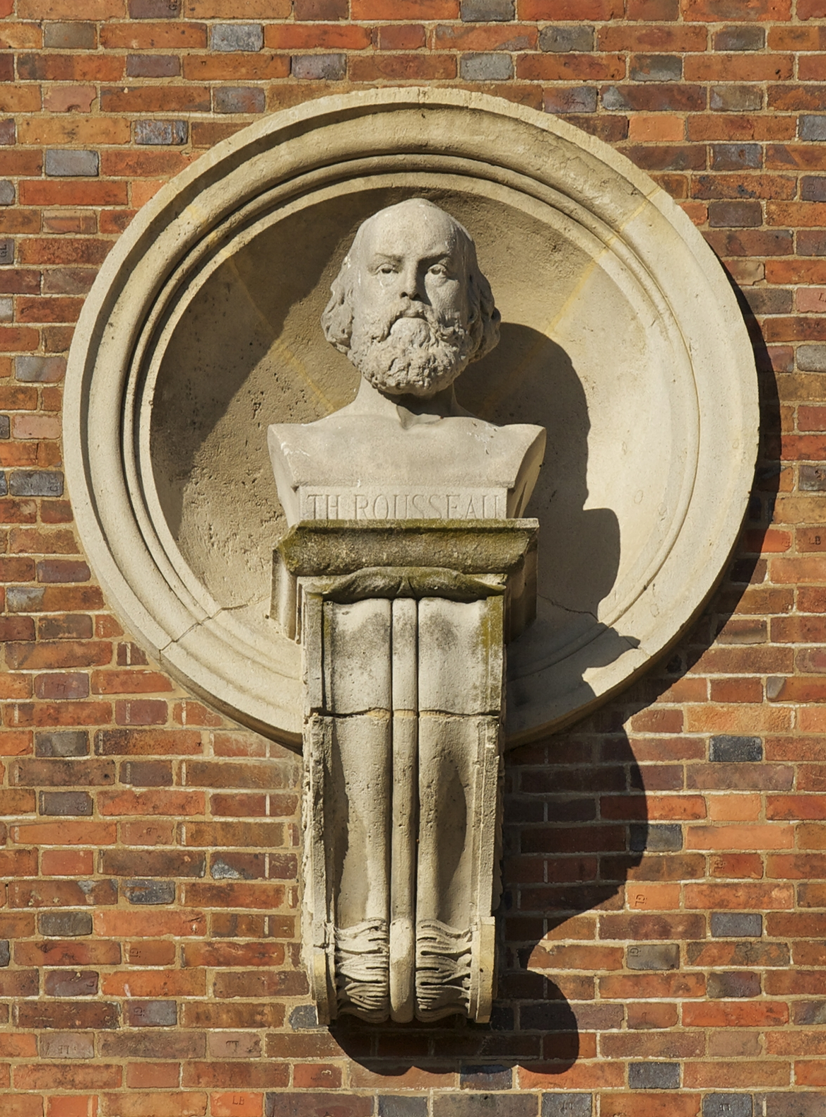 bust to the french painter Théodore Rousseau (1812-1867)